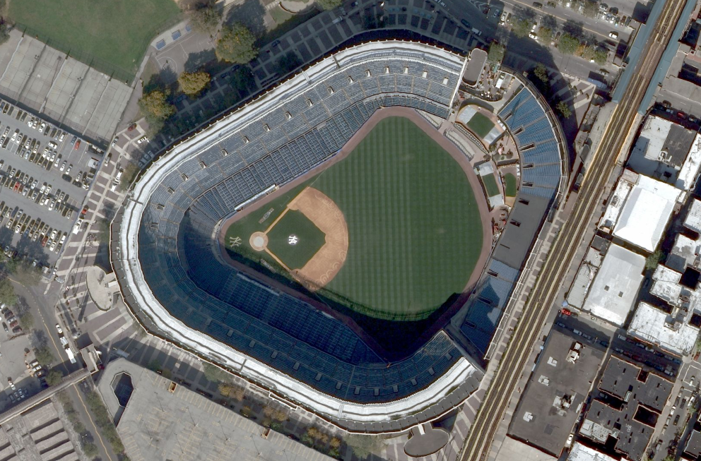 Yankee Stadium satellite view, nasa world wind 1.3.5